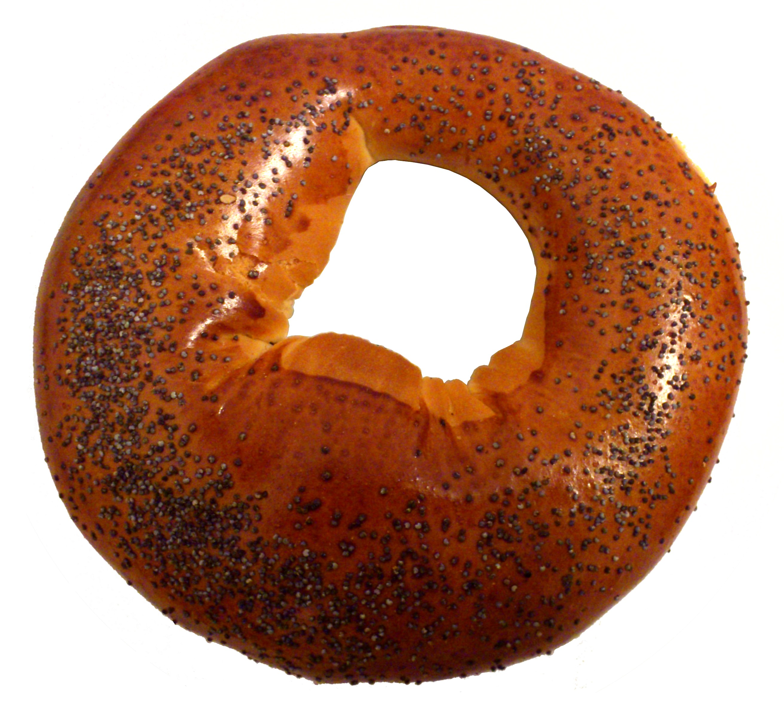 Typical Bublik topped with poppy seeds, purchased in Kiev, Ukraine